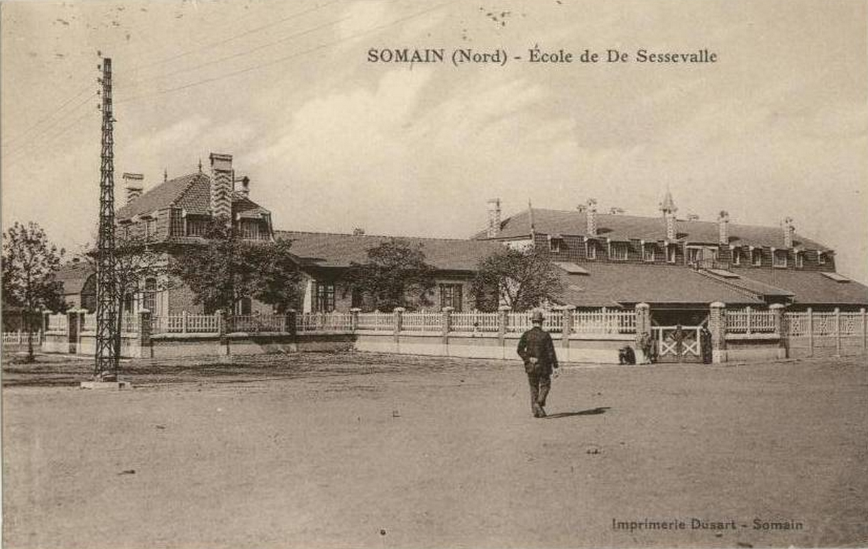 Somain, Nord-Pas-de-Calais, France.